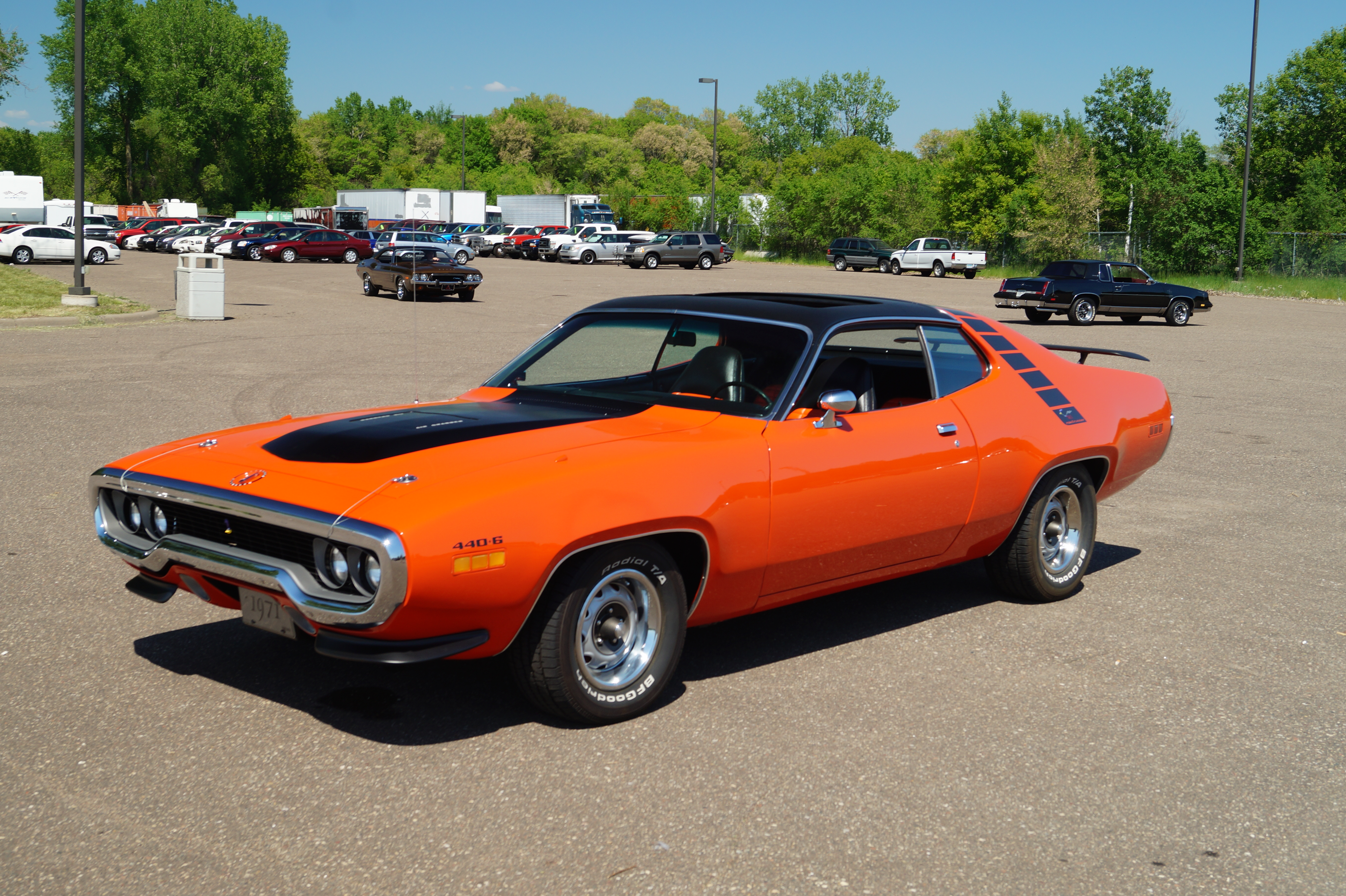 Click here for more car pictures at my Flickr site. Oldsmobile Club of America Minnesota Chapter 4th Annual Spring Dust Off Car Show & Swap Meet Unique Classics on 65 Ham Lake, Minnesota